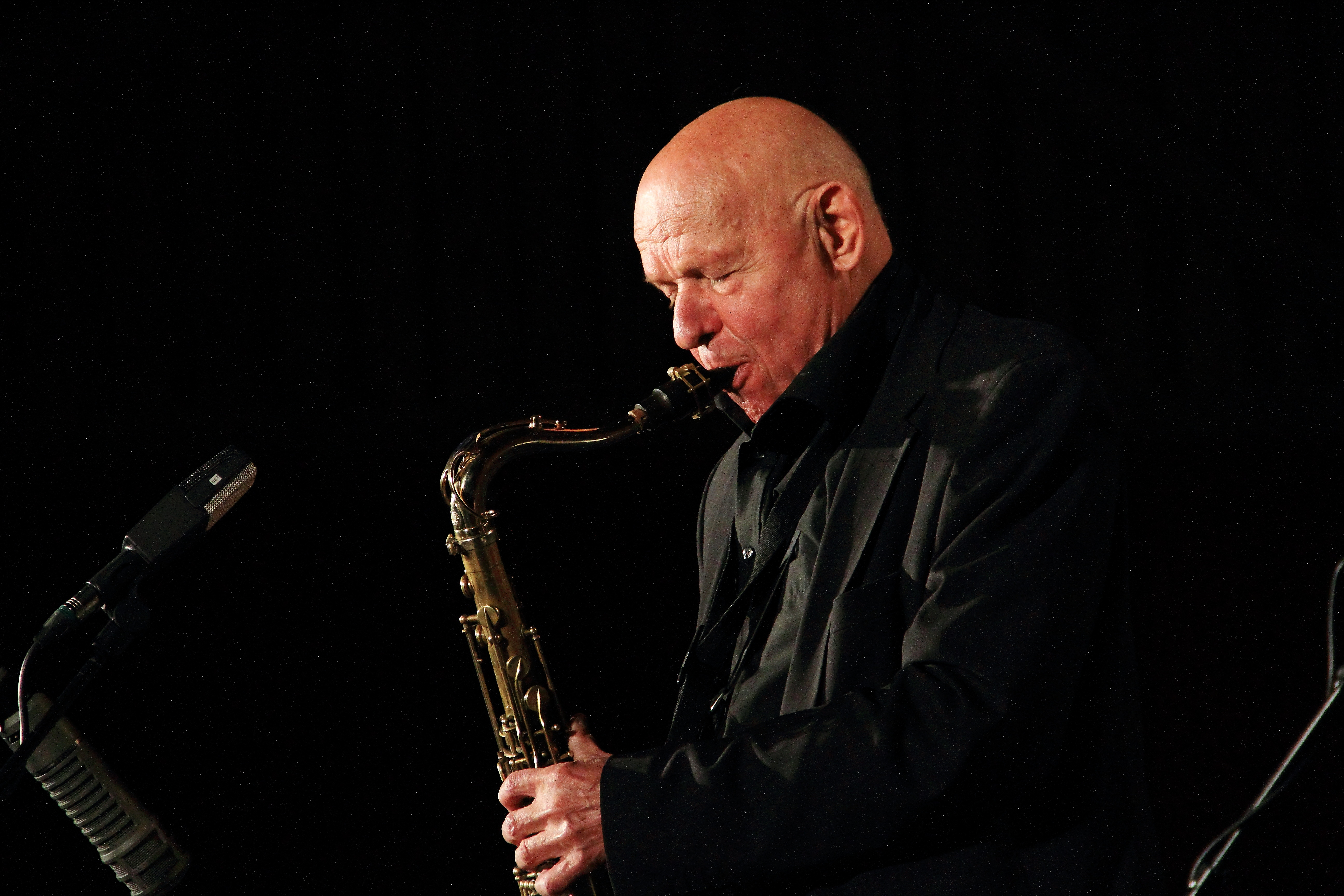 Dudek/Haurand/Humair at INNtöne Jazzfestival, Austria 2016.